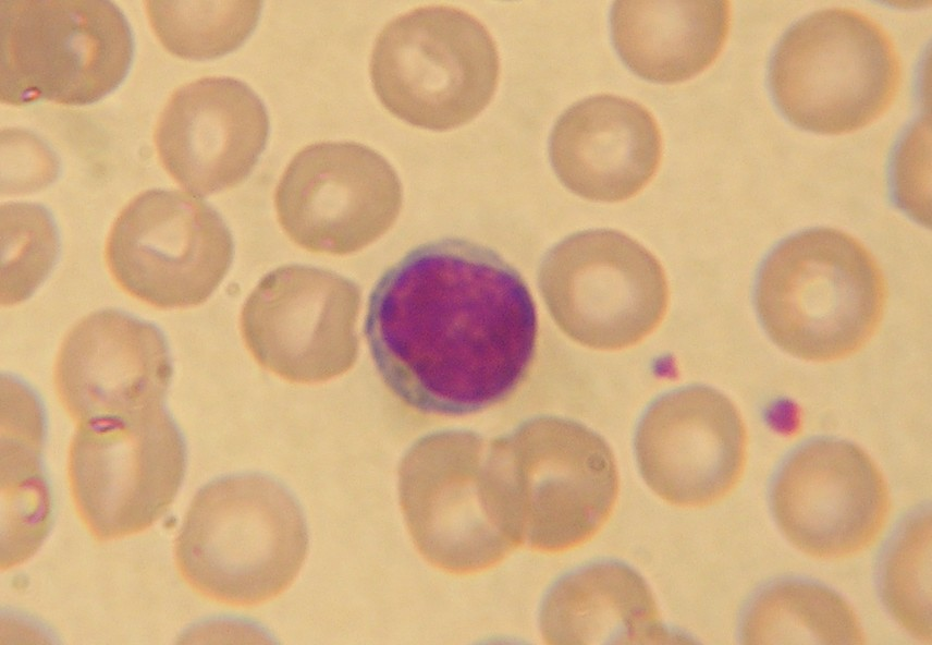 Lymphocyte (sang humain, normal). Coloration de May-Gründwald Giemsa, Gc = 1000. Février 2006